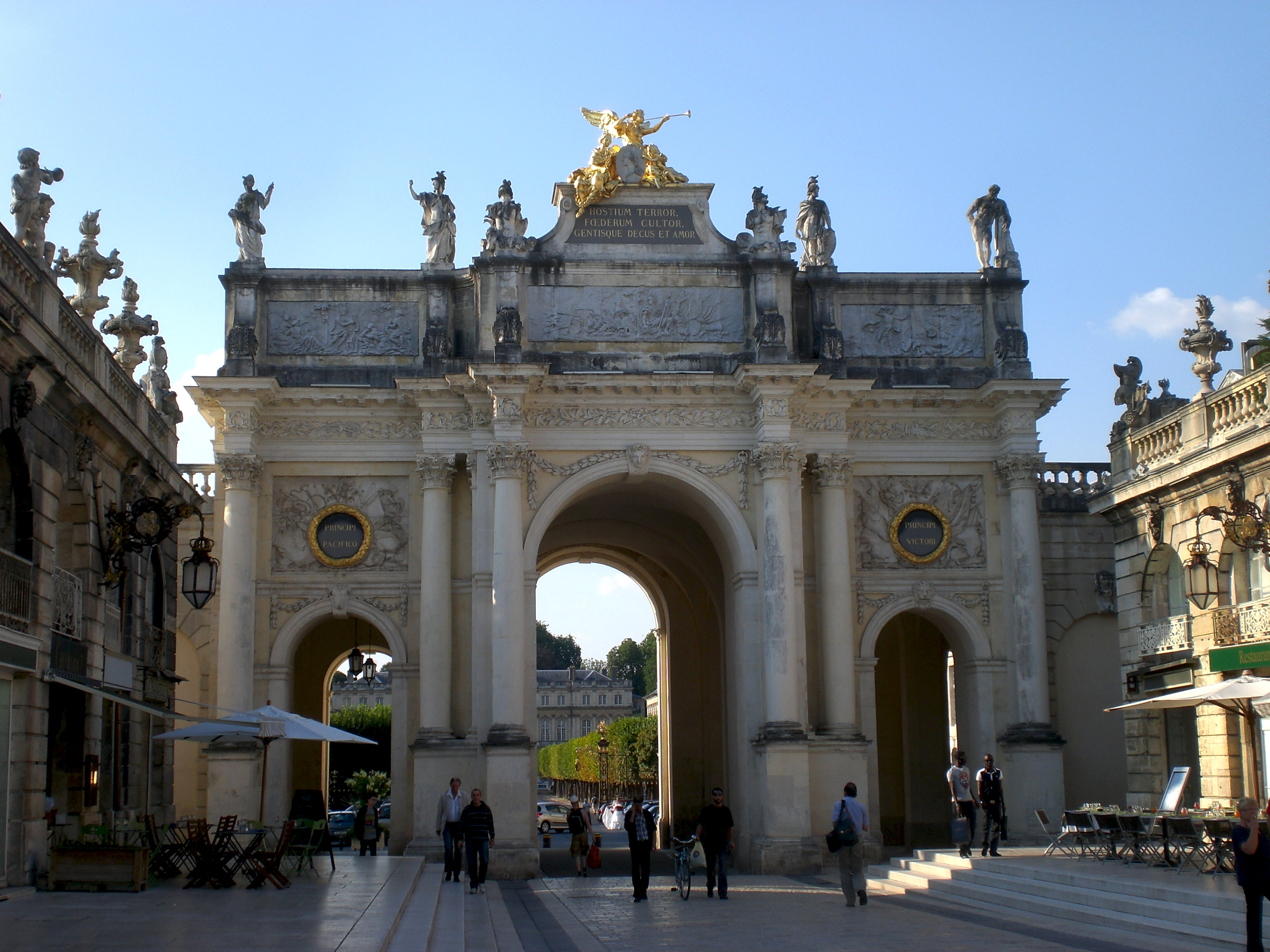 Nancy, Héré Arch